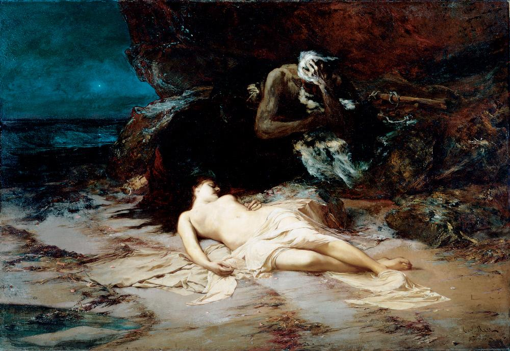 Carl Marr, The Mystery of Life, 1879 (originally: Assuerus, the Wandering Jew)